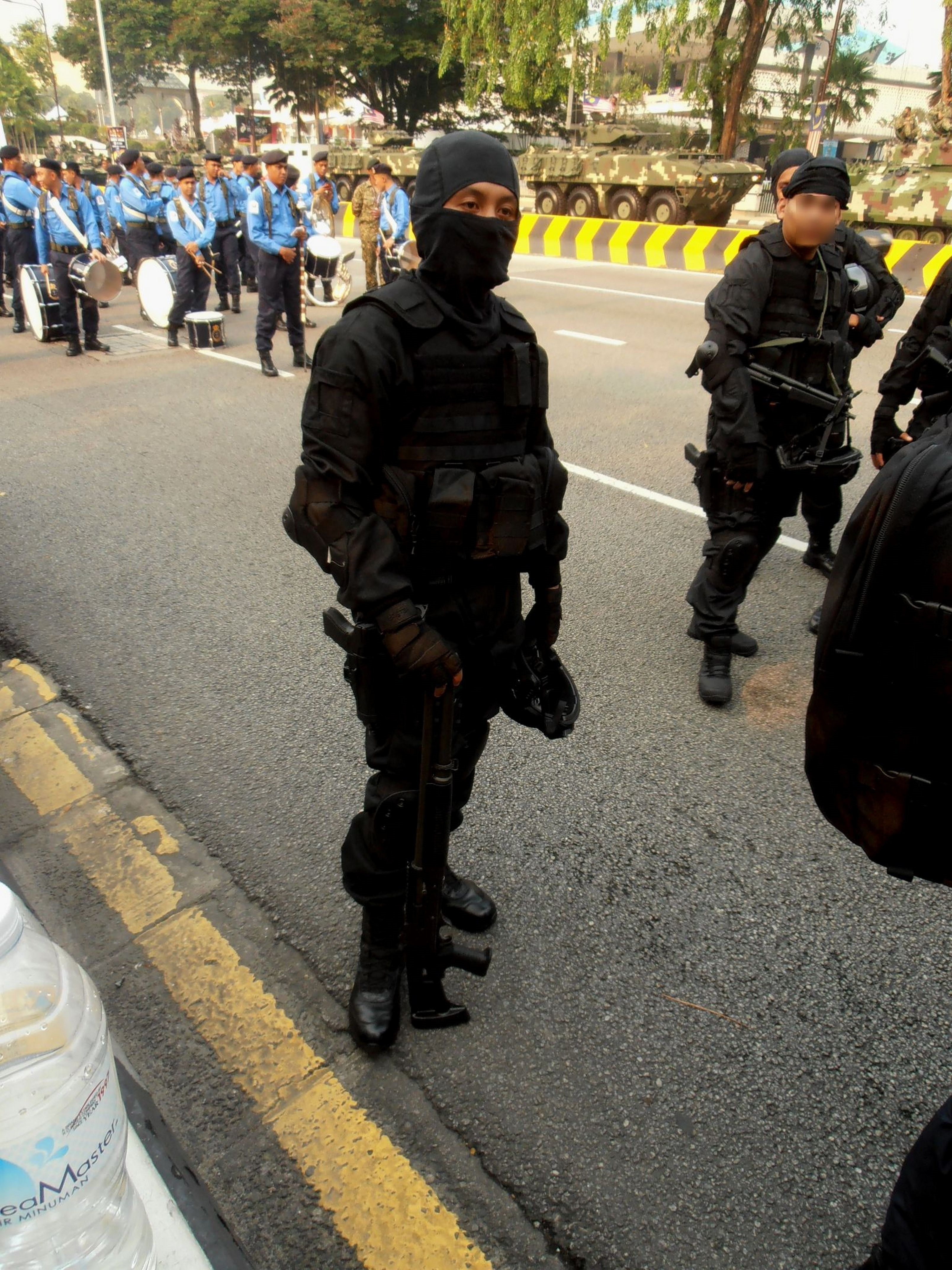 Shotgunner of Flight Hostage Rescue Team of PASKAU, Royal Malaysian Air Force with Benelli M1014 on standby during a prepare for the 2015 National Day Parade in Kuala Lumpur. The Flight HRT is primary counter-terrorist team of RMAF that is capable to counter various terrorist threats, from bomb threats to hostage situations.